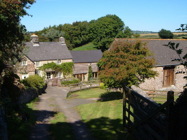 Thorn. A view of 235073 looking down the drive from the lane, showing extension and barn.